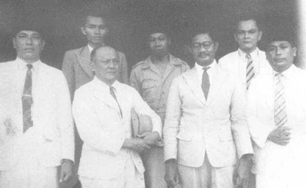 Indonesian leaders in Sulawesi who were exiled to Serui by the Dutch from 1946 to 1948. From left to right: Lanto Daeng Pasewang, I. P. L. Tobing, Sam Ratulangi, Suwarno, Josef Latumahina, Wim Pondaag, and Intje Saleh Daeng Tompo